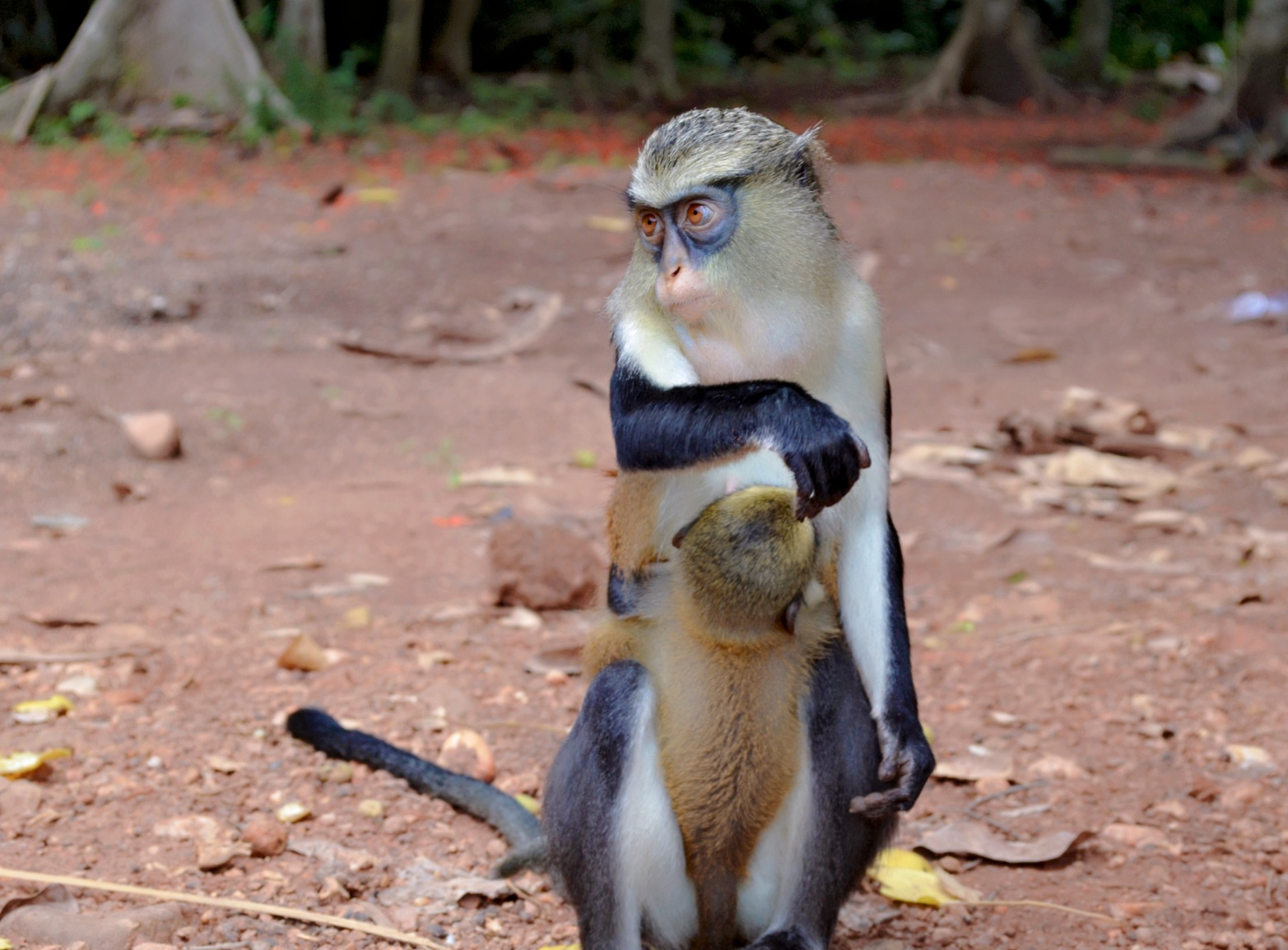 Mona monkey and baby in Tafi Atome Monkey Sanctuary,Ghana.